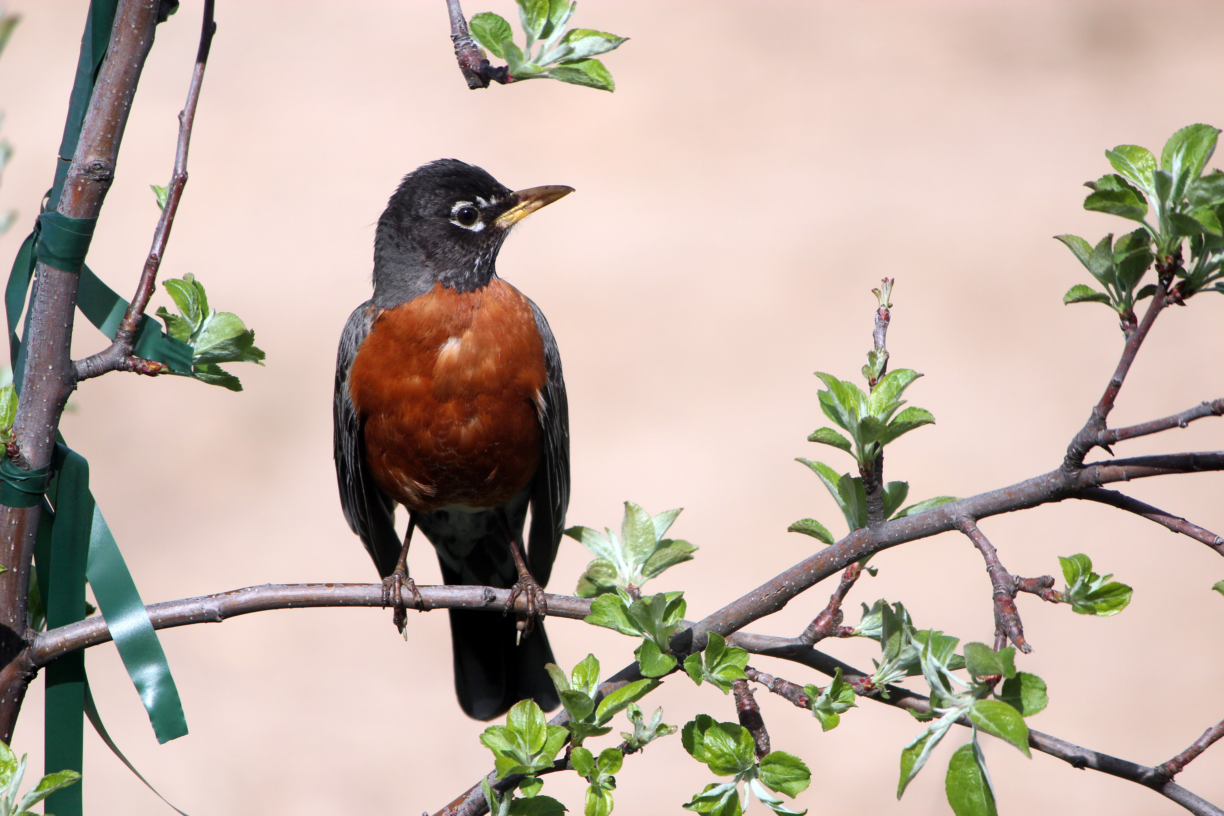 American robin (Turdus migratorius) perched on an apple tree in spring.